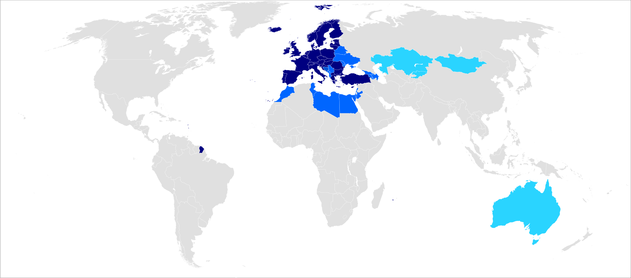 Map of the members, affiliates, and partner standardization bodies of the European Committee for Standardization.